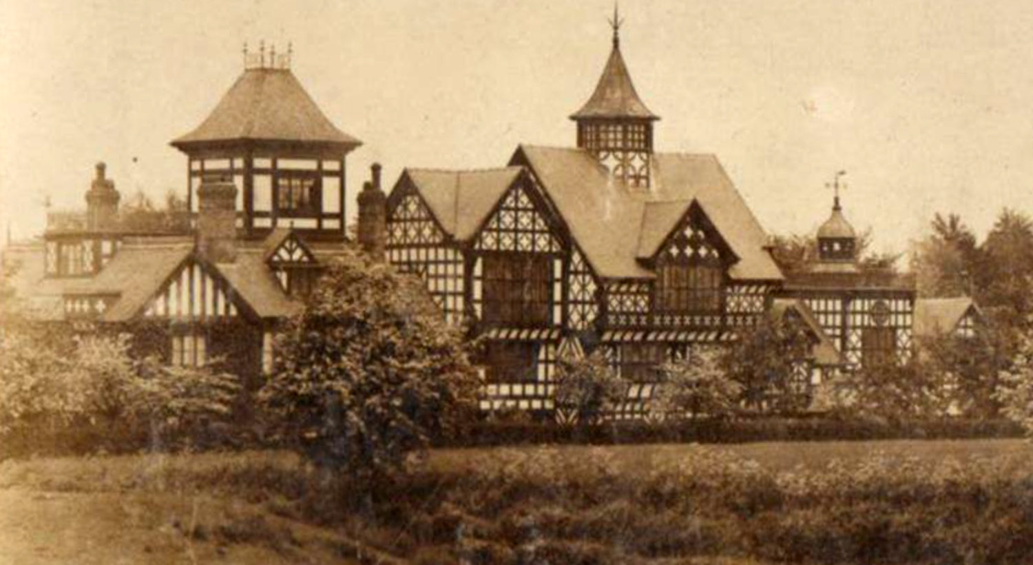 Wild Boar Hotel (then called Beeston Towers) in 1900